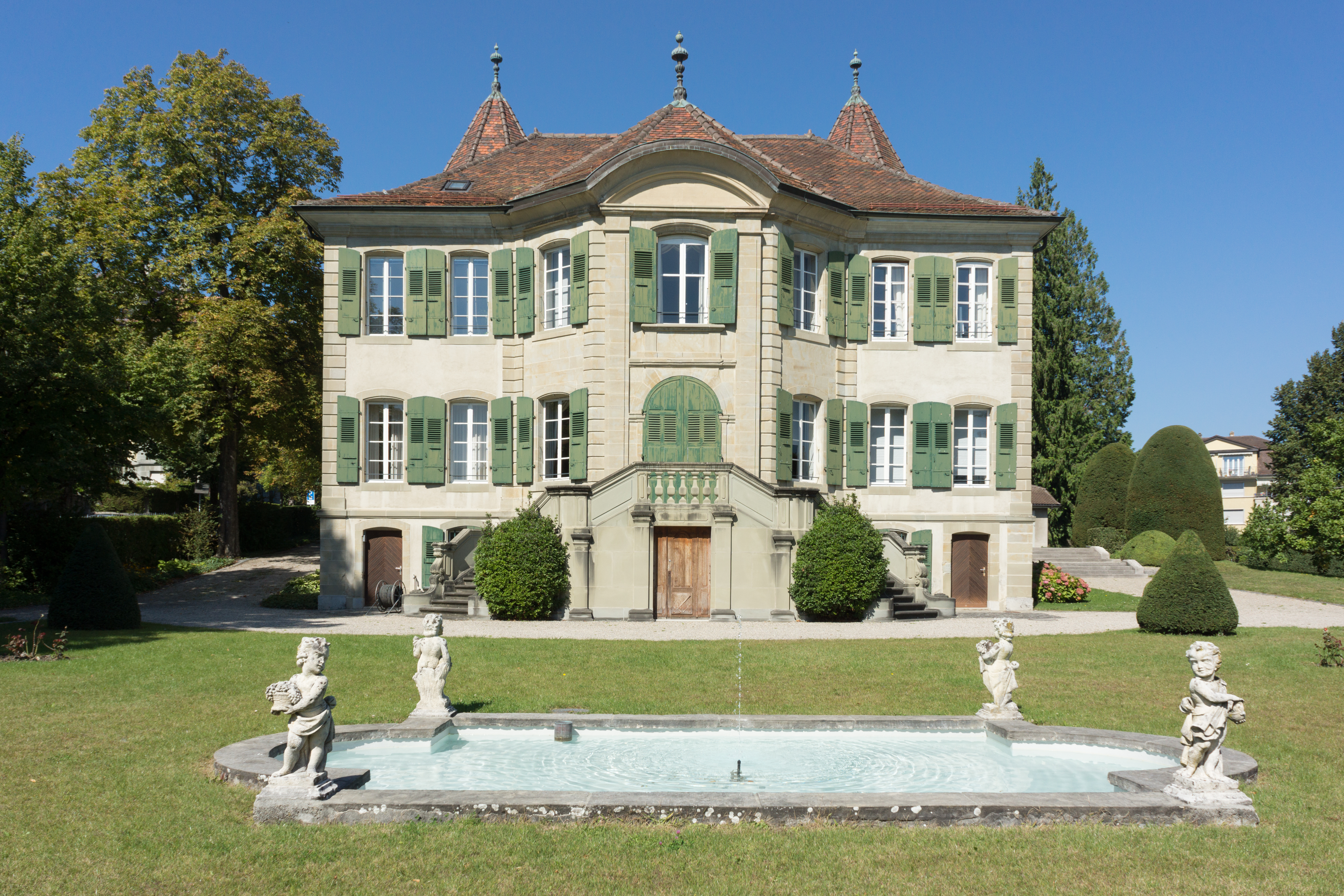 The Castle of Béthusy, headquarters of the Court of Arbitration for Sport in Lausanne, Switzerland.